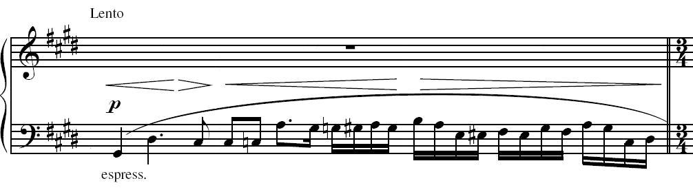 First bar Etude C-sharp minor Op. 25 No 7 by Fryderyk Chopin (1810-1849)